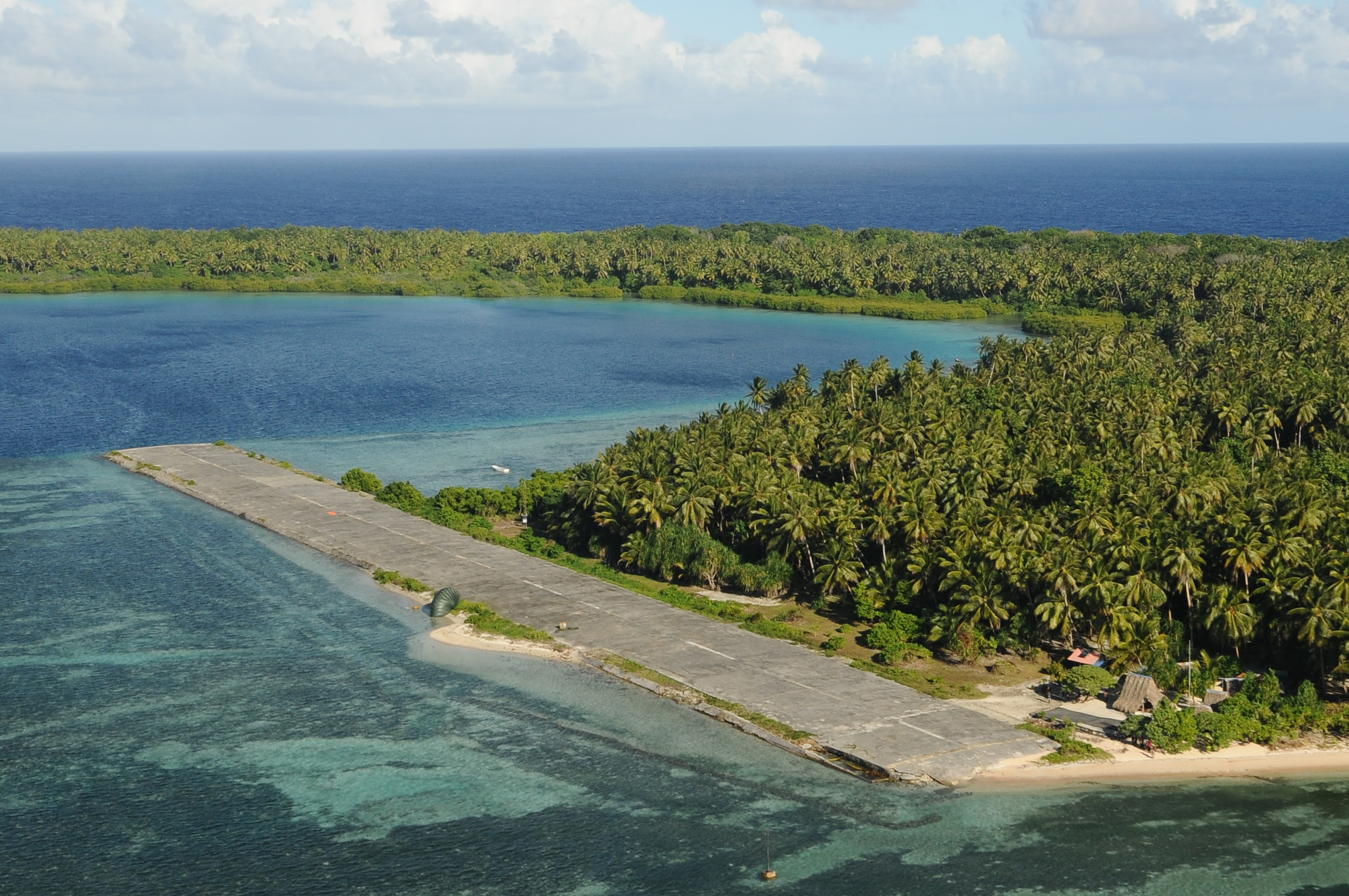 Two packages land on the runway at Pingelap Island, part of Pohnpei State of the Federated States of Micronesia, after a successful air drop during Operation Christmas Drop Dec. 12, 2012. Each year OCD provides aid to more than 30,000 islanders in Chuuk, Palau, Yap, Marshall Islands and Commonwealth of the Northern Mariana Islands. This year is the 61st anniversary of OCD, making it the longest running humanitarian mission in the world. In total, there are eight planned days of air drops, with 54 islands scheduled to receive humanitarian aid. (U.S. Air Force photo by Senior Airman Carlin Leslie/Released)